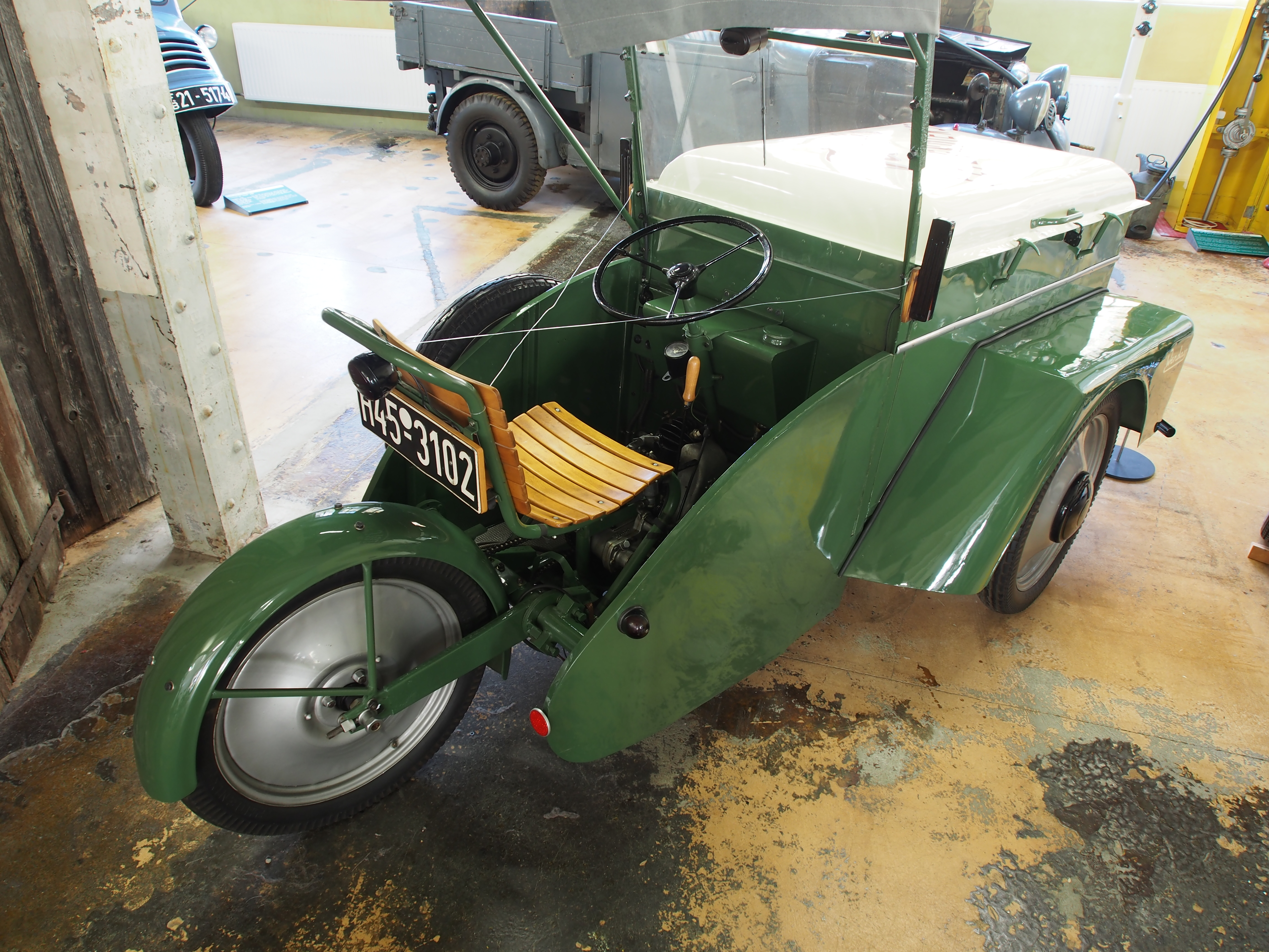 Photographed in the museum Auto & Uhrenwelt Schramberg, Germany.